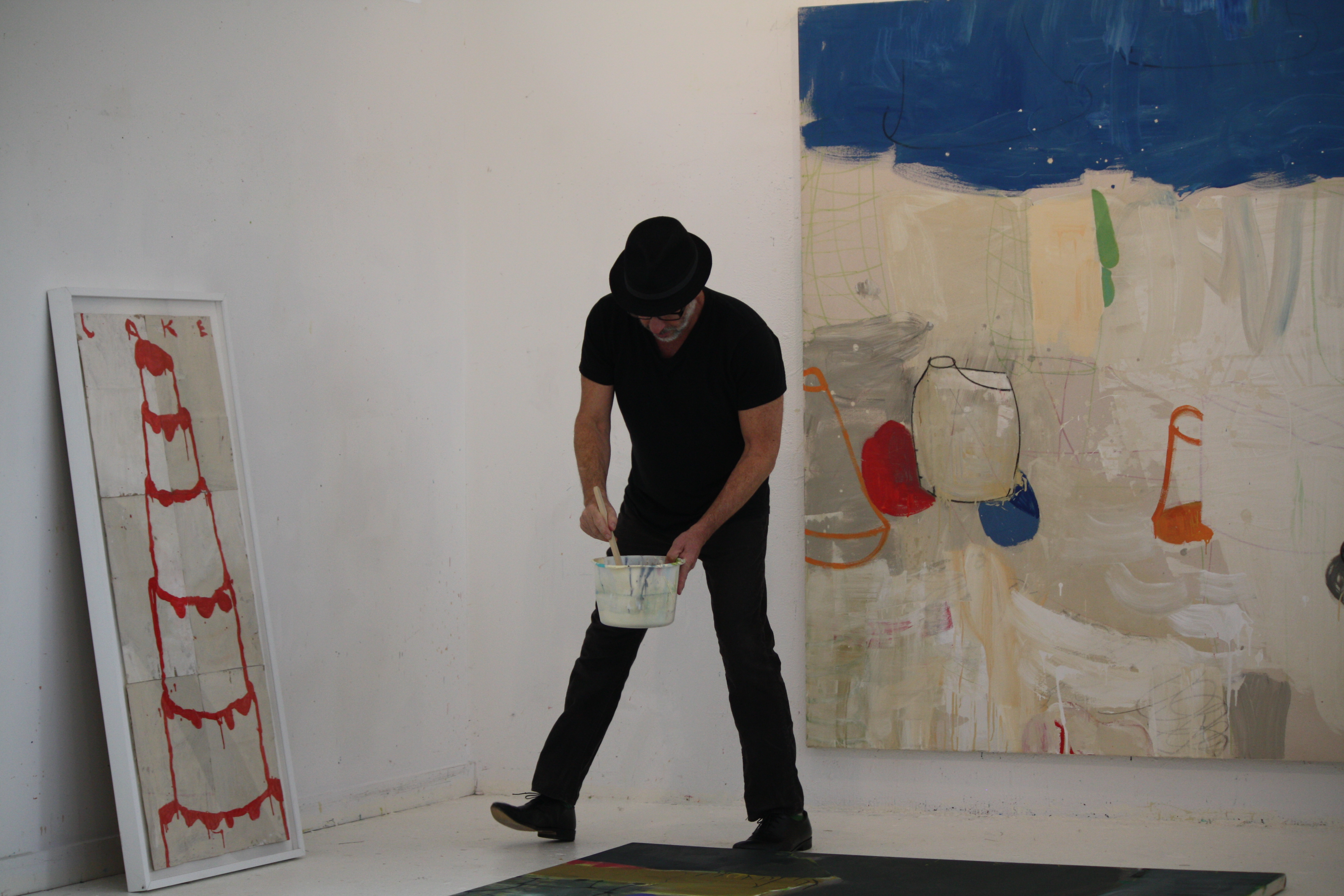 This is a photo of Gary Komarin painting in his studio with other pieces of his work including a CAKE painting.